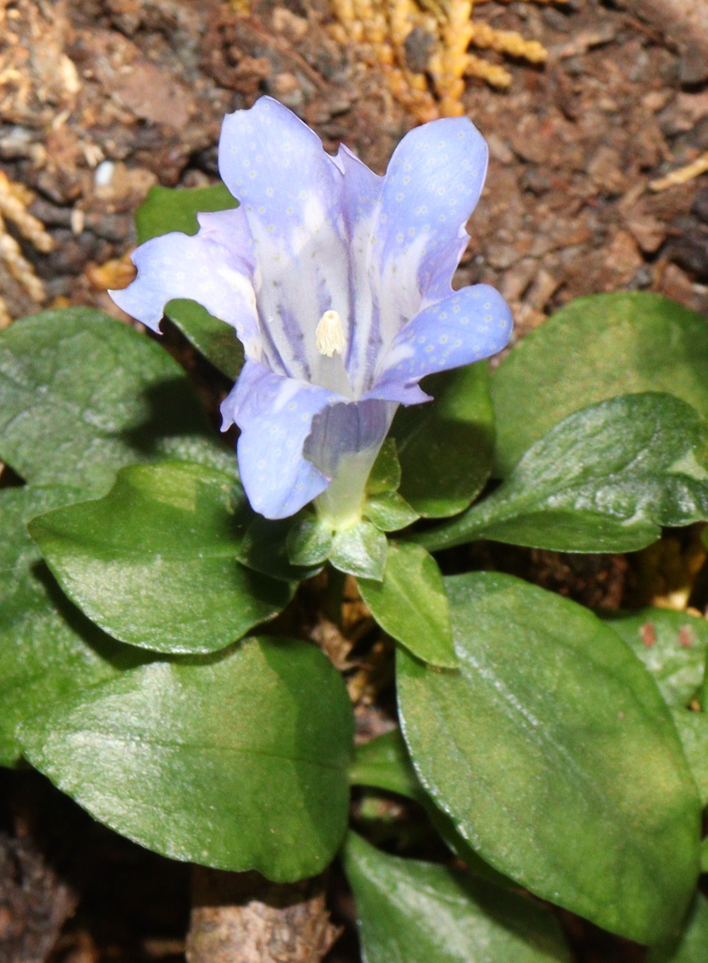 Gentiana sikokiana in Mount Asama, Ise, Mie Prefecture, Japan.